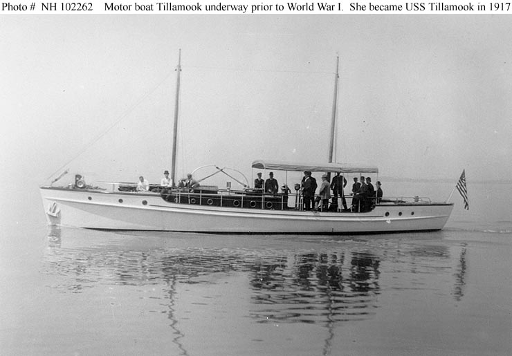 Motorboat Tillamook prior to her United States Navy service as patrol vessel USS Tillamook (SP-269, also known as USS SP-269.